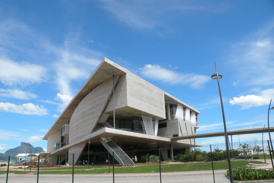 Opera House of Rio de Janeiro